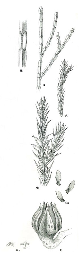 Plate 46 from "Forest Flora of New South Wales" A-C: Callitris macleayana F.Muell.